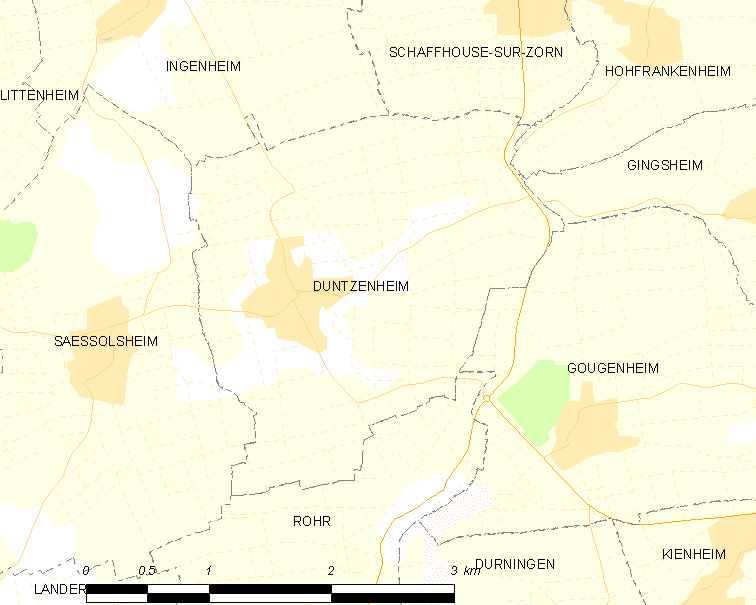 Map of French municipality